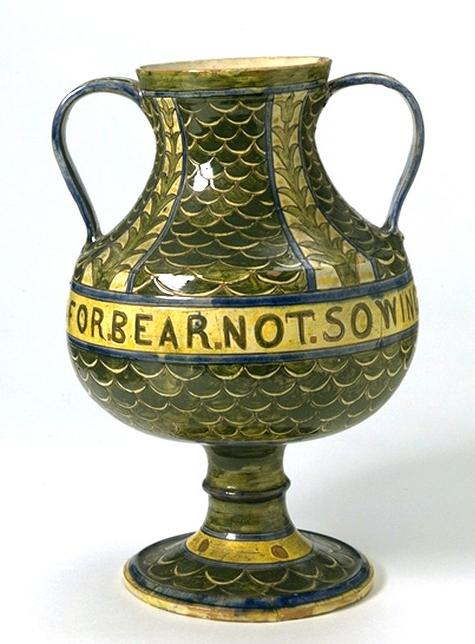 Vase, 1894-1906, Della Robbia Pottery V&A Museum no. CIRC.201-1961 Techniques: Earthenware, with sgraffito and painted decoration Place: Merseyside, England Dimensions: Height 29.8 cm, Diameter 21.6 cm Object Type: Although functional as a holder for flowers, this vase was probably intended for show. This classical shape, with raised handles in the form of coiled snakes, is modelled on 16th-century Italian examples. Design in the Renaissance Revival style was increasingly popular during the mid-19th century, partly through the influence of design schools such as the one at South Kensington.